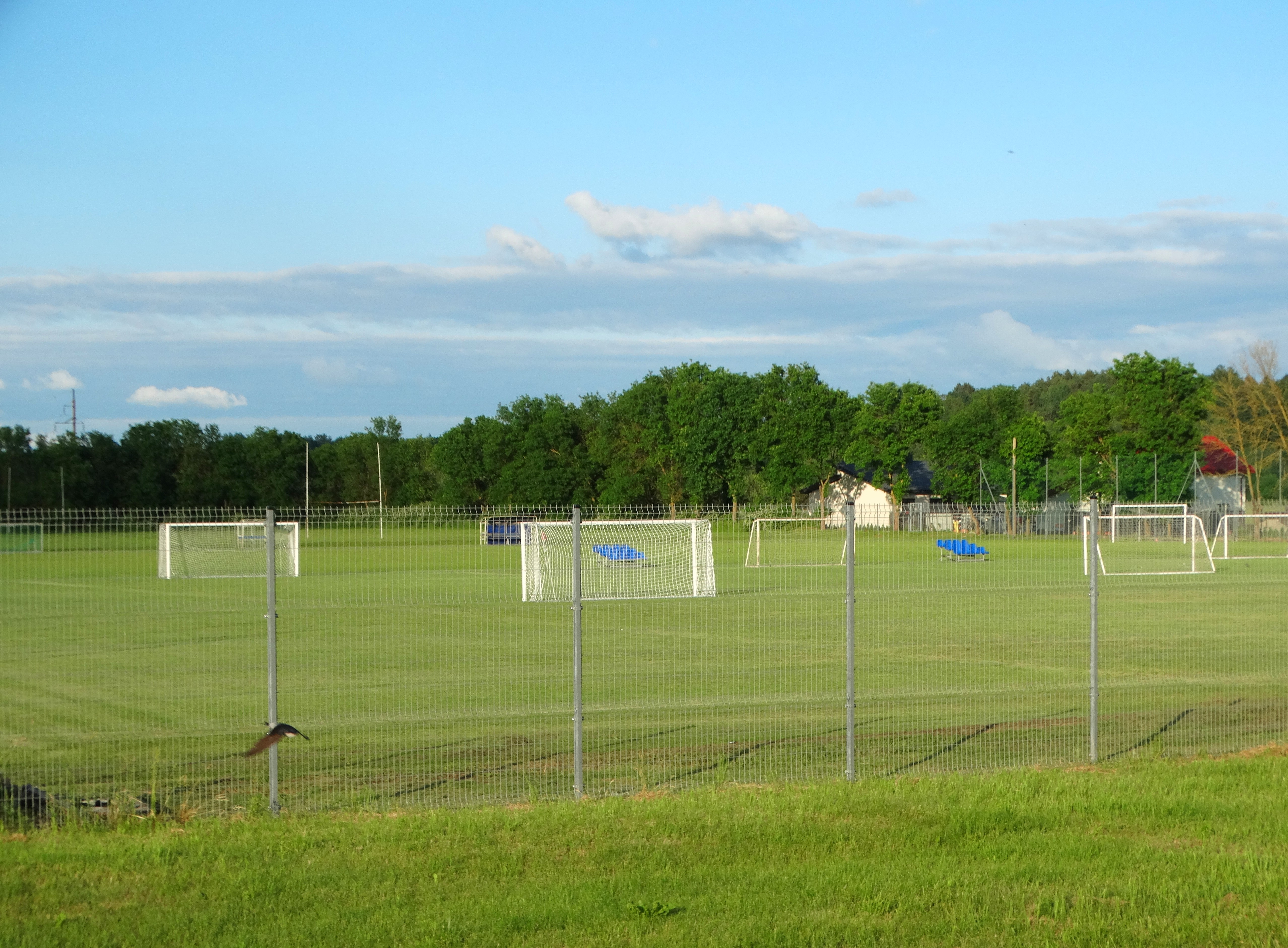 Neris stadium, Jonava, Lithuania